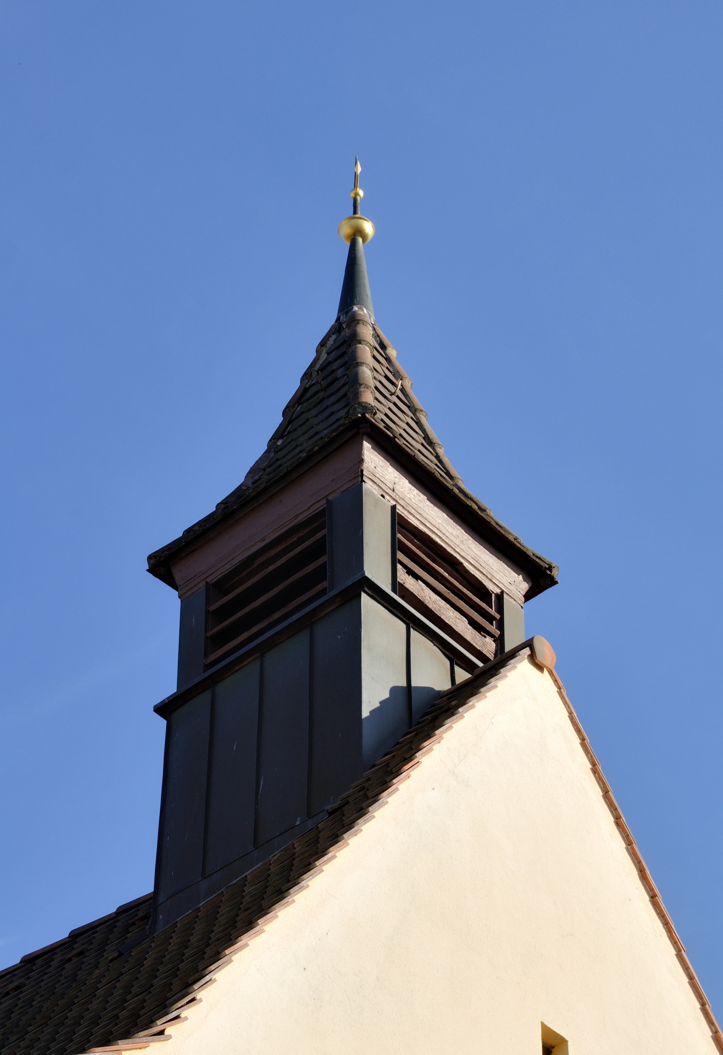 Rümmingen: Protestant Church